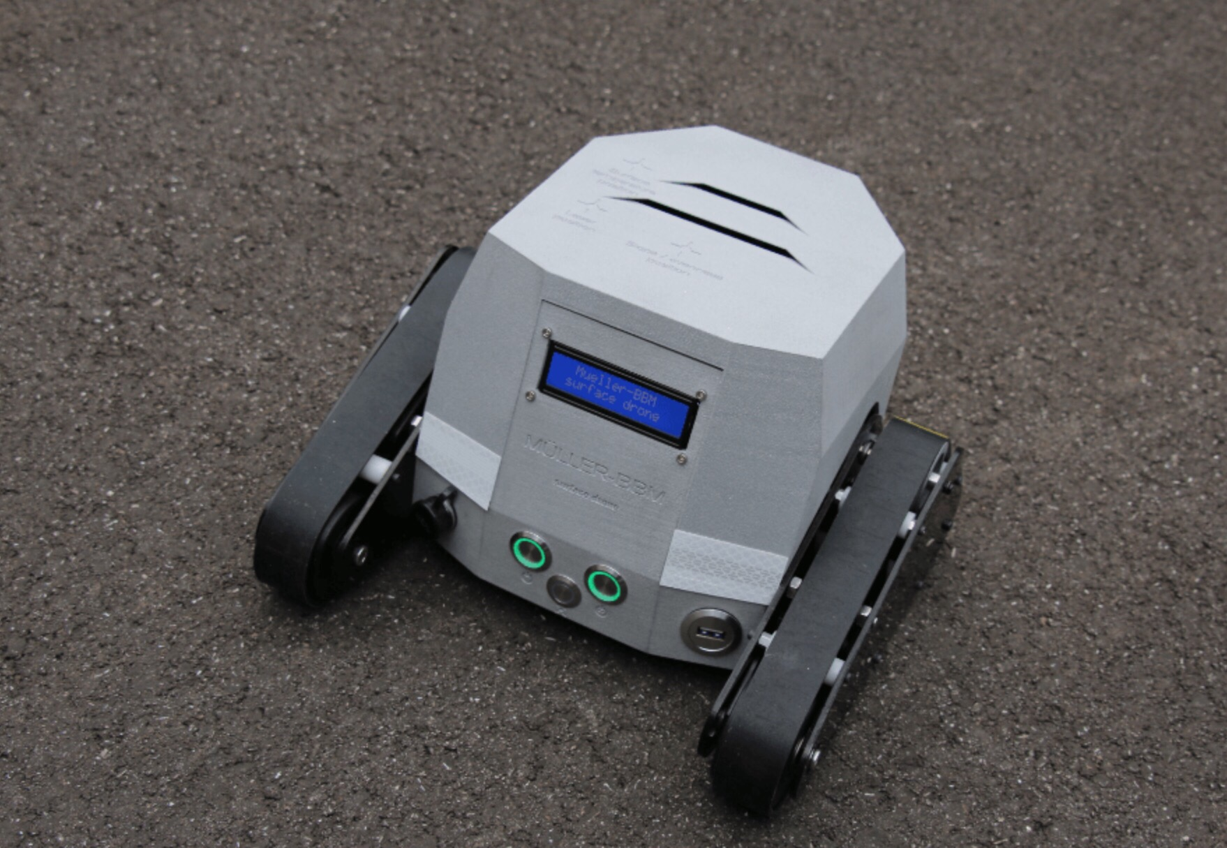 The surface drone system is used to measure road surface texture and evenness